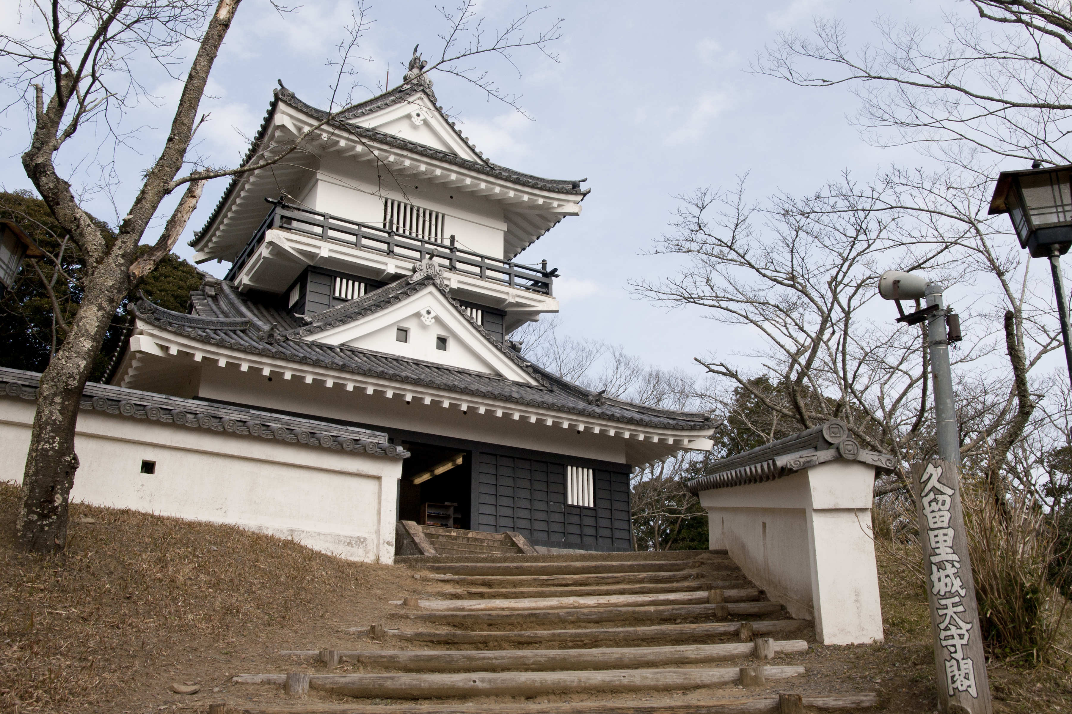 Kururi Castle in Kimitsu City, Chiba Pref., Japan